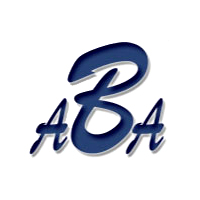 Official Logo for Aisha Bawany Academy